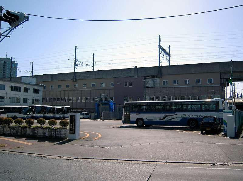 JR bus Tohoku Morioka branch